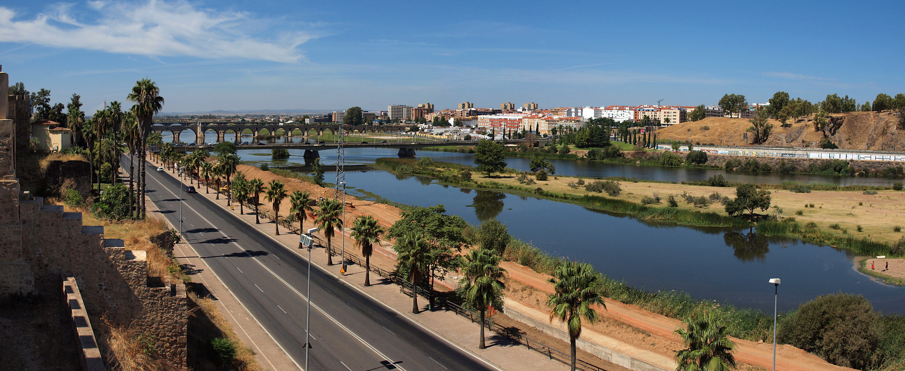 Guadiana River viewed from the Alcazaba of Badajoz. Stitch of 2 horizontal images